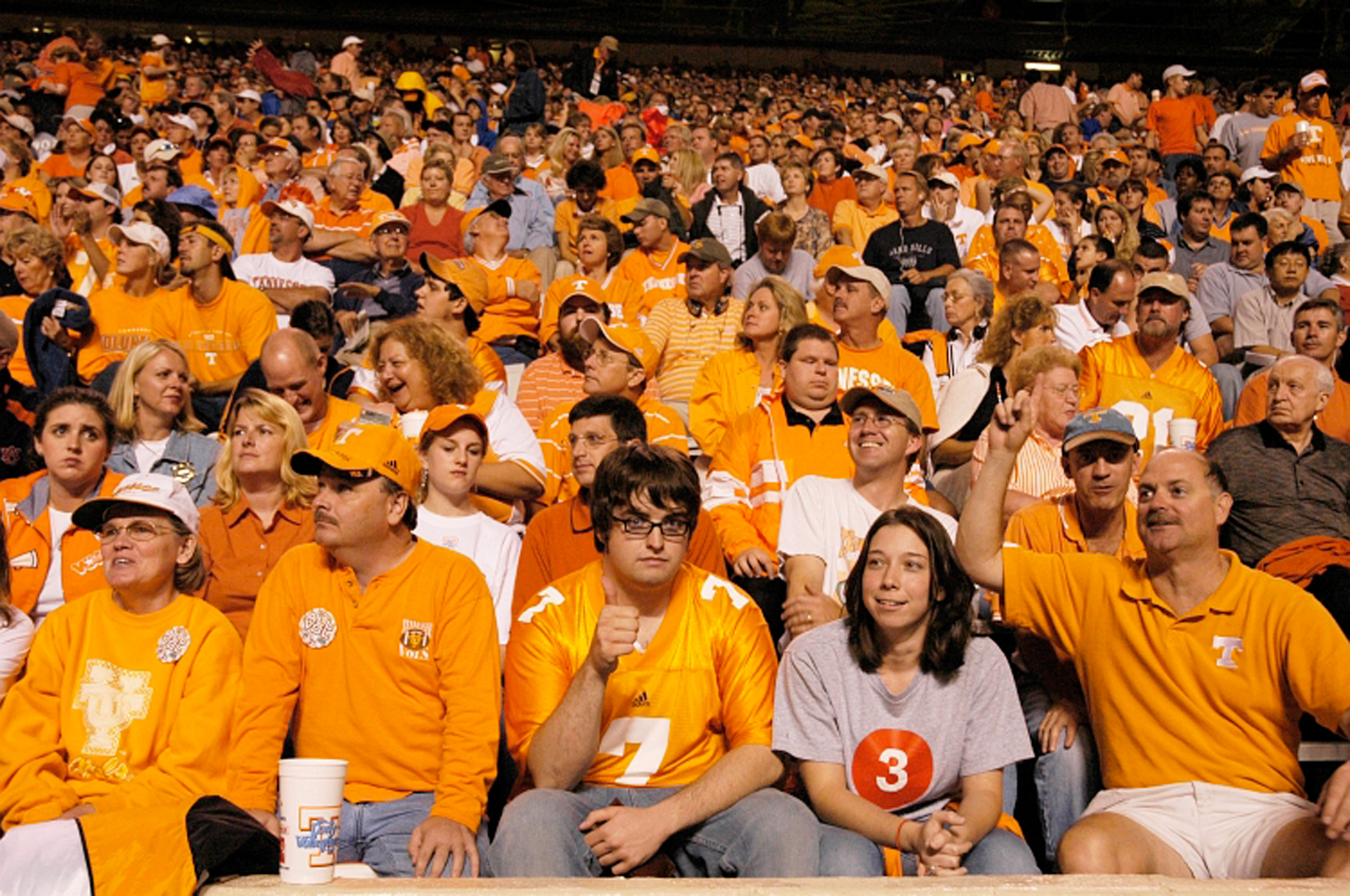 Pierre Lascott, Rights Released on